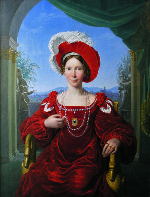 Portrait of Auguste von Hessen-Kassel (1780-1841) , née princess of Prussia